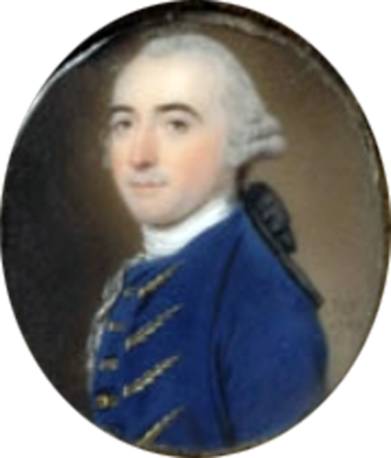 Valentine Morris, owner of Piercefield House, circa 1765